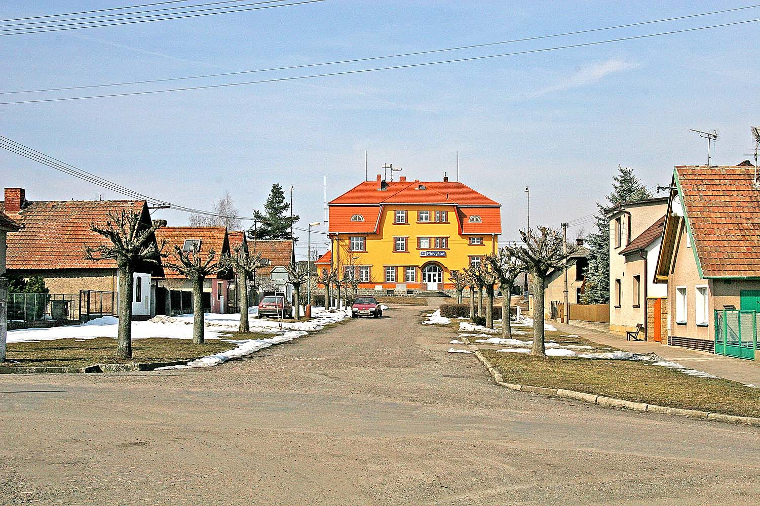 View to the railway station in Převýšov, Hradec Králové District, Czech Republic autor: Prazak date: 24. 3. 2006